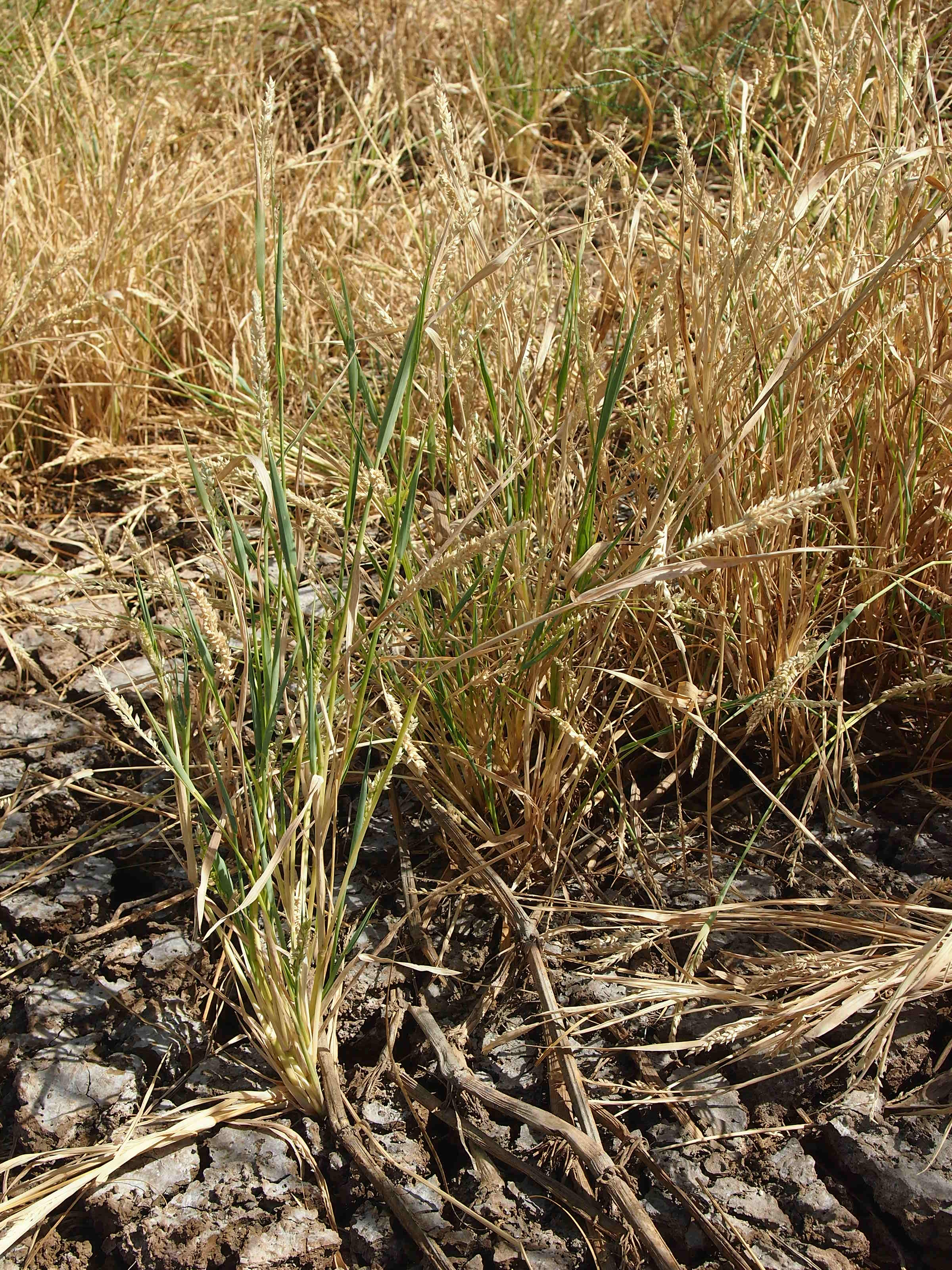 Echinochloa turneriana